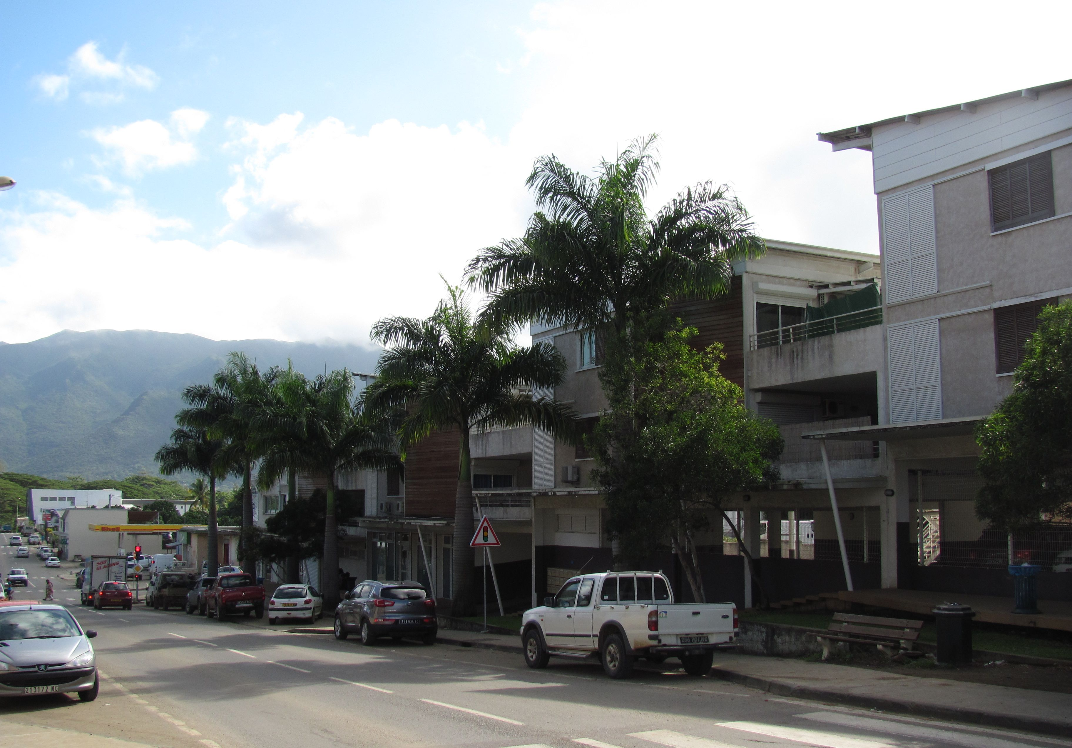 High Street, Koné, New Caledonia